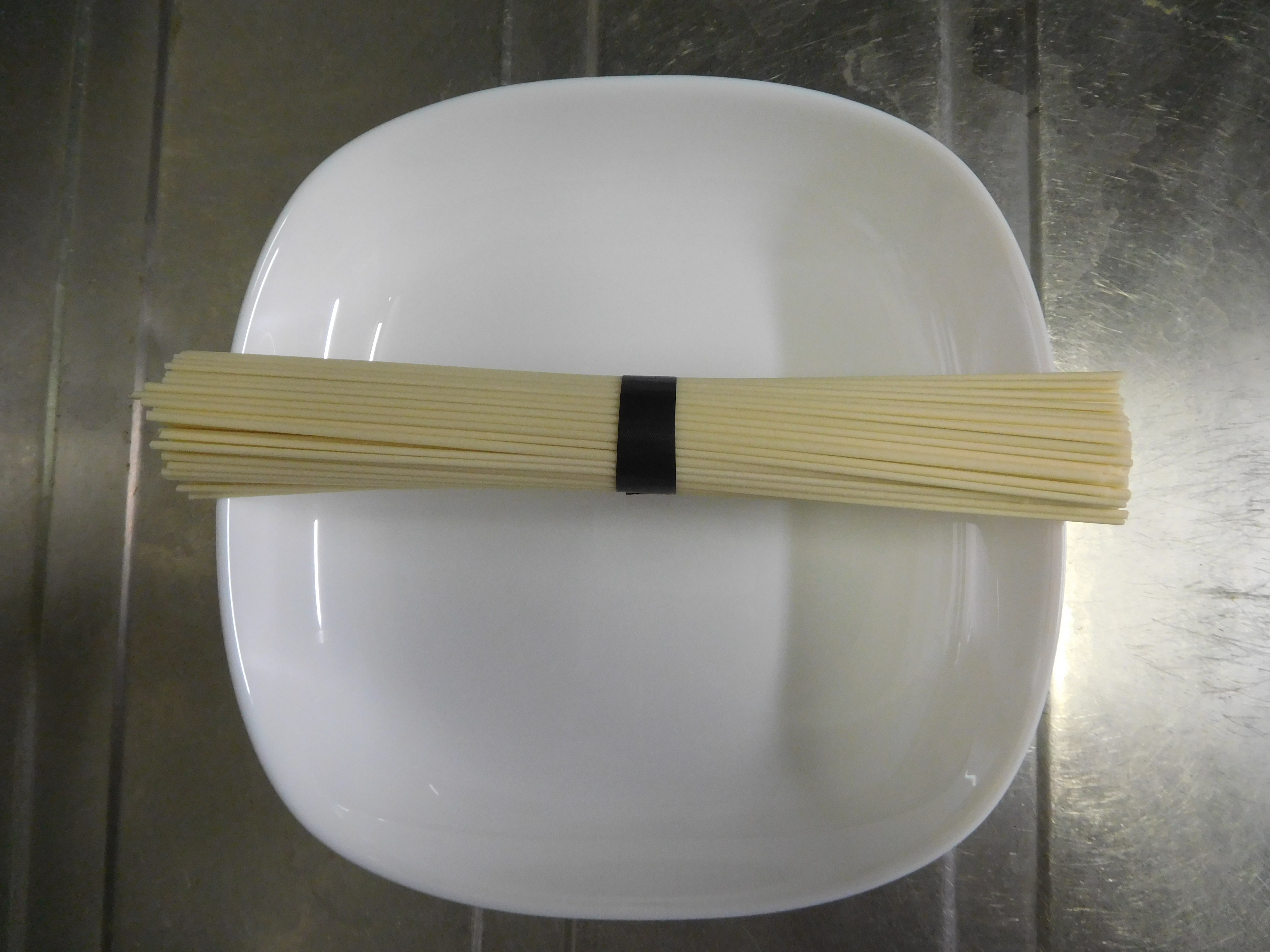 This is dried Goto Udon, famous noodles in Goto Islands, Nagasaki prefecture, Japan. This was made by Marumasu seimen.